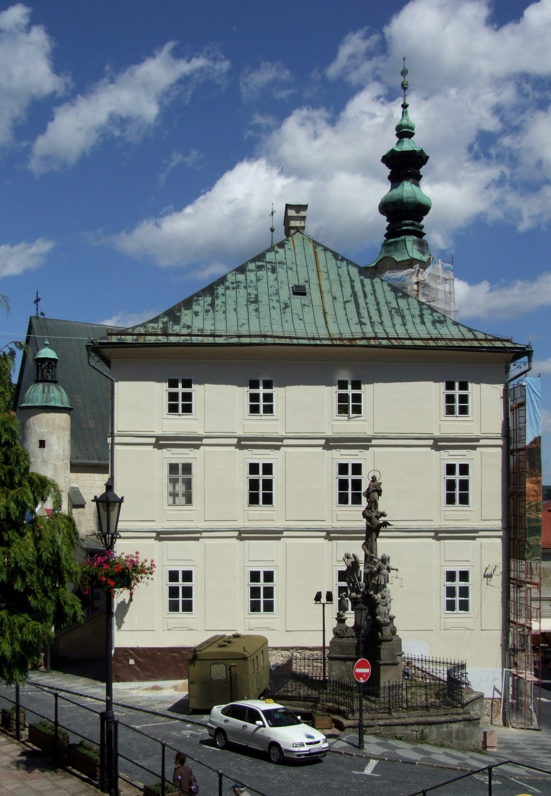 Banská Štiavnica (Selmecbánya, Schemniz), Slovakia - town hall